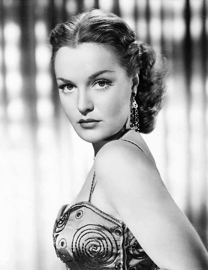 Publicity photo of Dorothy Hart, 1951.